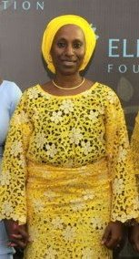 Governor Rochas Okorocha of Imo State, Mrs. Uloma Nwosu (MD House of Freeda), Mrs Dolapo Osinbajo (Wife of the Vice President of Nigeria), Mrs Nkechi Okorocha ( Wife of the Imo State Governor)